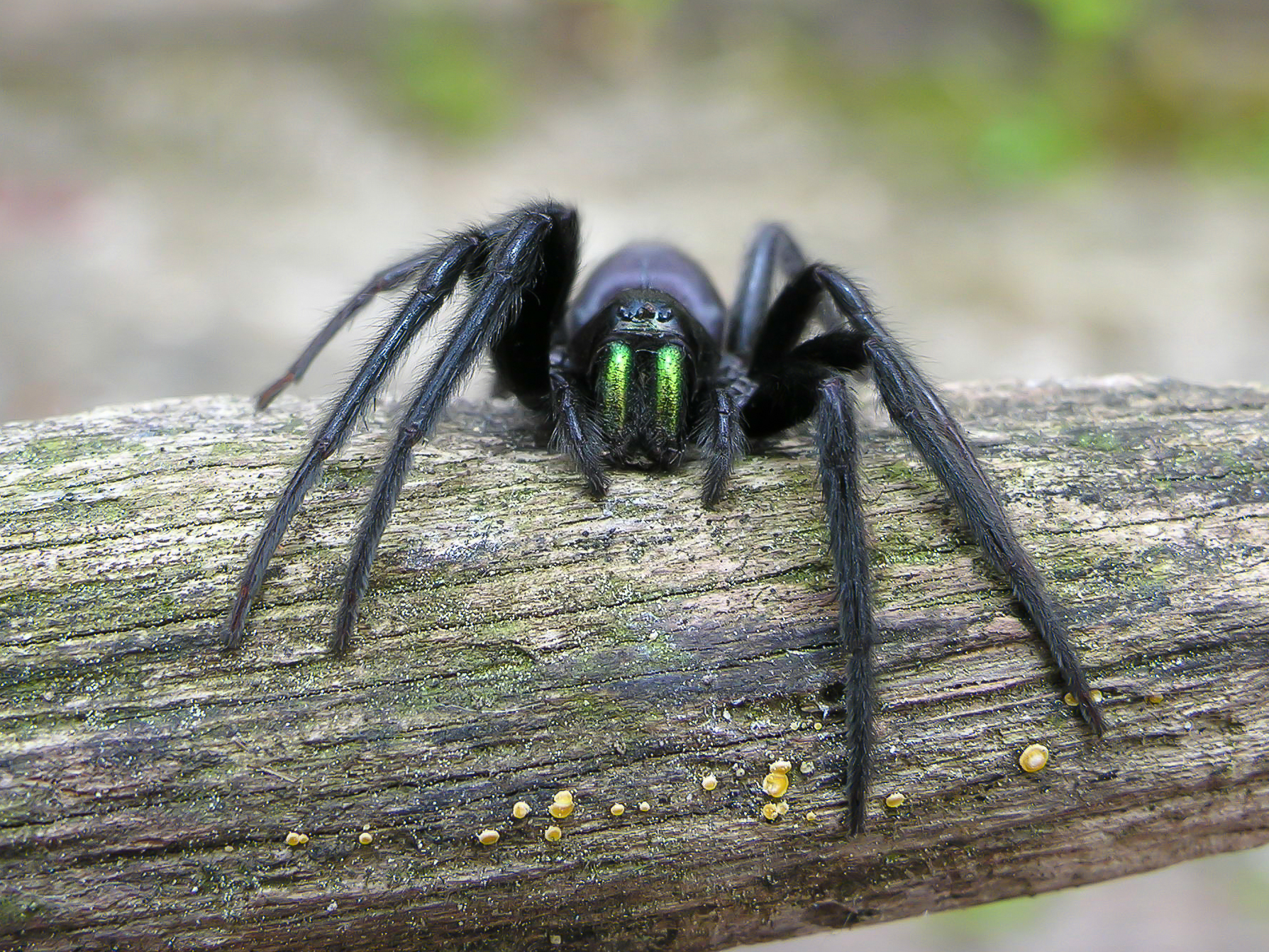 Segestria florentina in Oza dos Ríos, Galicia, Spain.